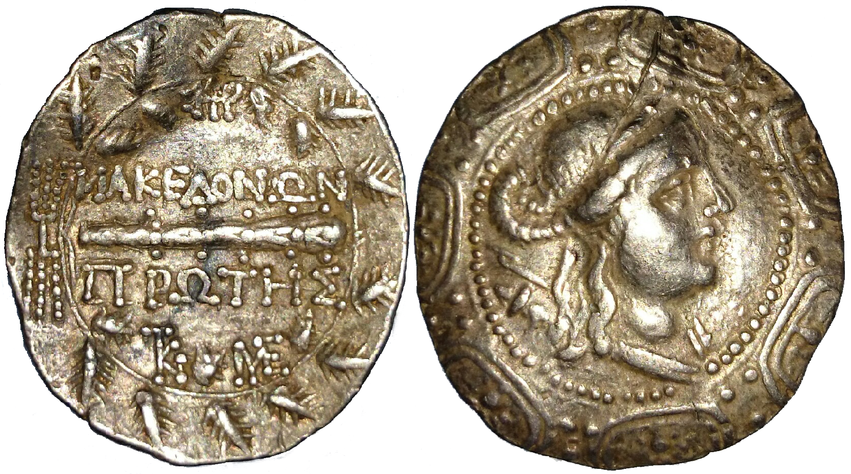 Silver tetradrachm (mass: 16.9g, mf: unknown, diameter: 33mm maximum, quality: N/A) of the First Macedonian client republic (~168-146 BCE), struck at the Amphipolis mint. Rome defeated the Macedonian kingdom in 168BCE and divided the constituent parts of the disintegrating kingdom into four client republics that were later amalgamated into a Roman province. Obverse: Bust of Artemis Tauropolos facing right with bow and quiver set on Macedonian shield. Reverse: ΜΑΚΕΔΟΝΩΝ ΠΡΩΤΗΣ (MAKEDONON PROTIS - "FIRST MACEDON") and club in centre field surrounded by oak wreath, monograms above and below, lightning bolt left. Down, KM (Koinon Makedonon, Macedonian Common)